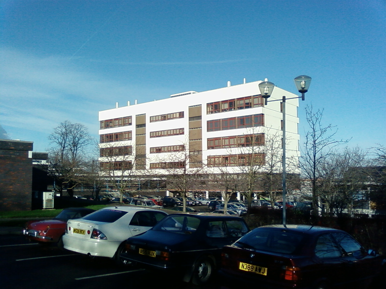 This is a photograph of chemistry department at Loughborough University. I took this photo myself on Thursday 25th January 2007 through Samsung E900 mobile phone with 2.0 Mega pixel Camera with resolution (1600x1200 pixel).